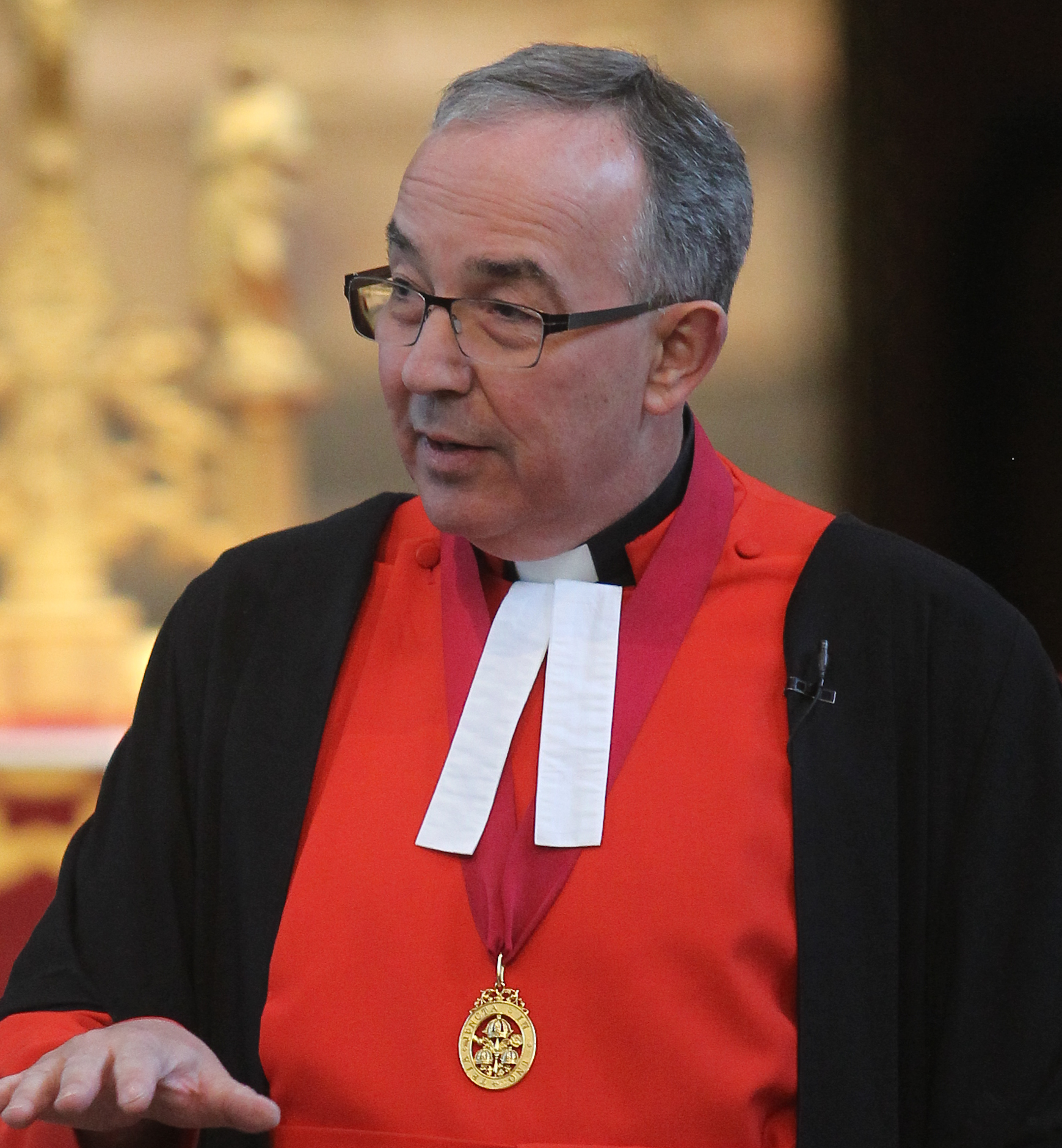 The Dean of Westminster The Very Reverend Dr John Hall gave a special guided tour of Westminster Abbey, London,on 28 April 2015 for Friends of the National Churches Trust